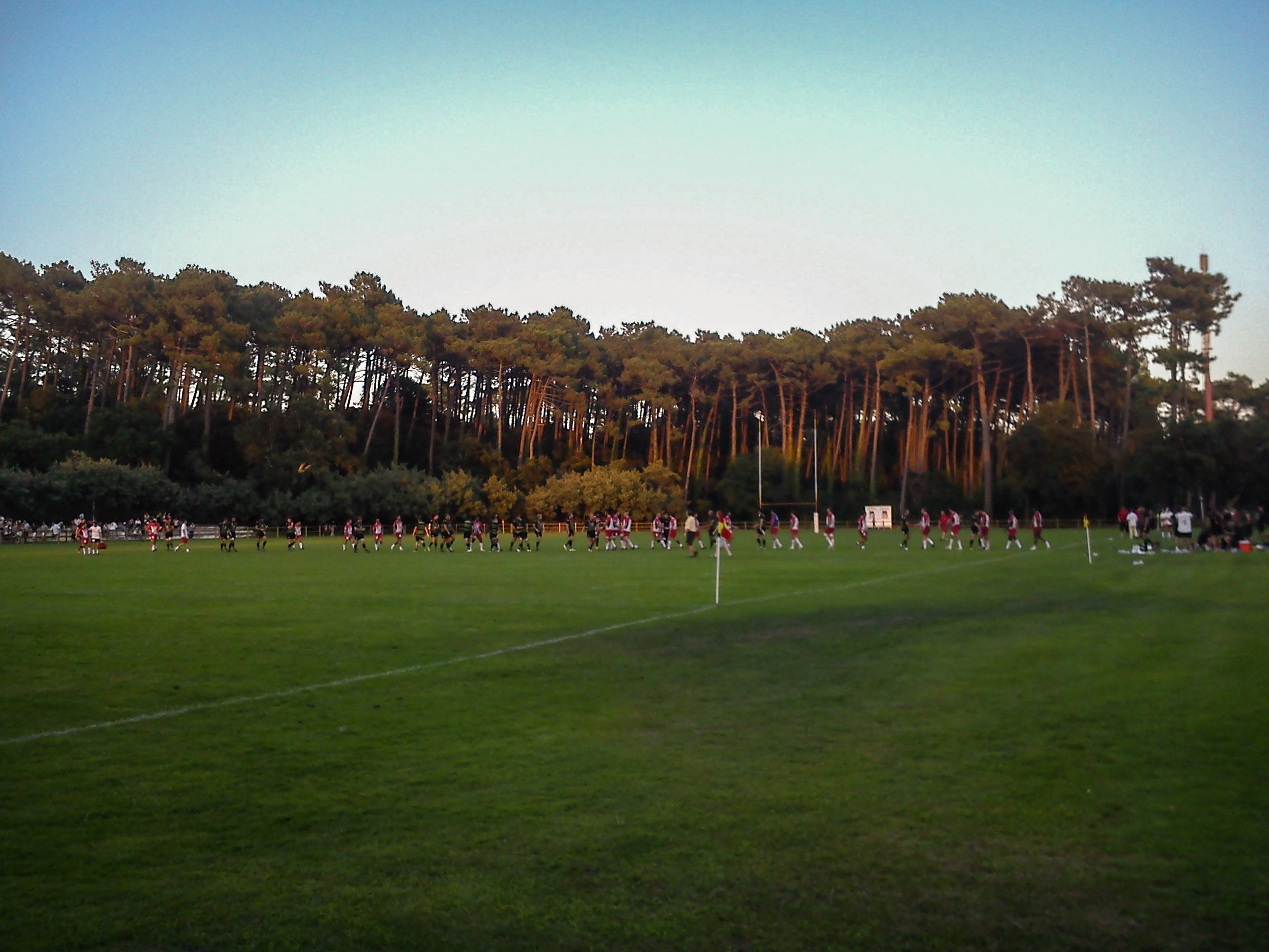 Rugby union friendly match — 20 August 2010, Soorts-Hossegor. Match between: US Dax — Northampton Saints